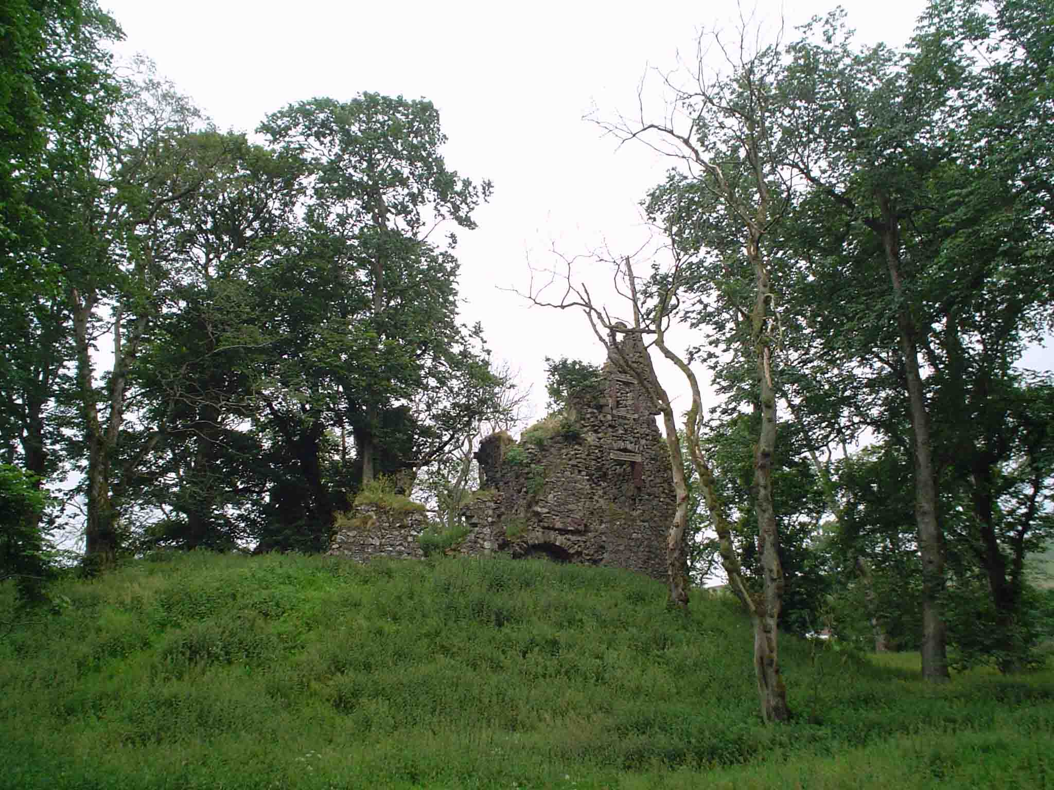 terrorford taken myself crawford castle Terrorford 21:42, 2 October 2006 (UTC)